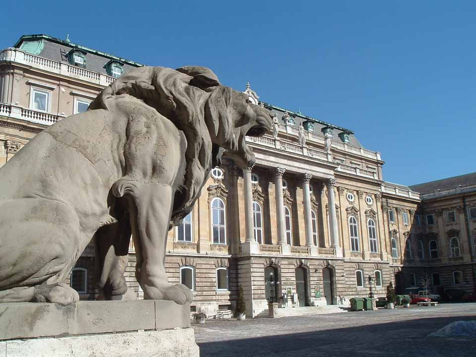 The inner court of the Castle of Buda, Budapest, Hungary